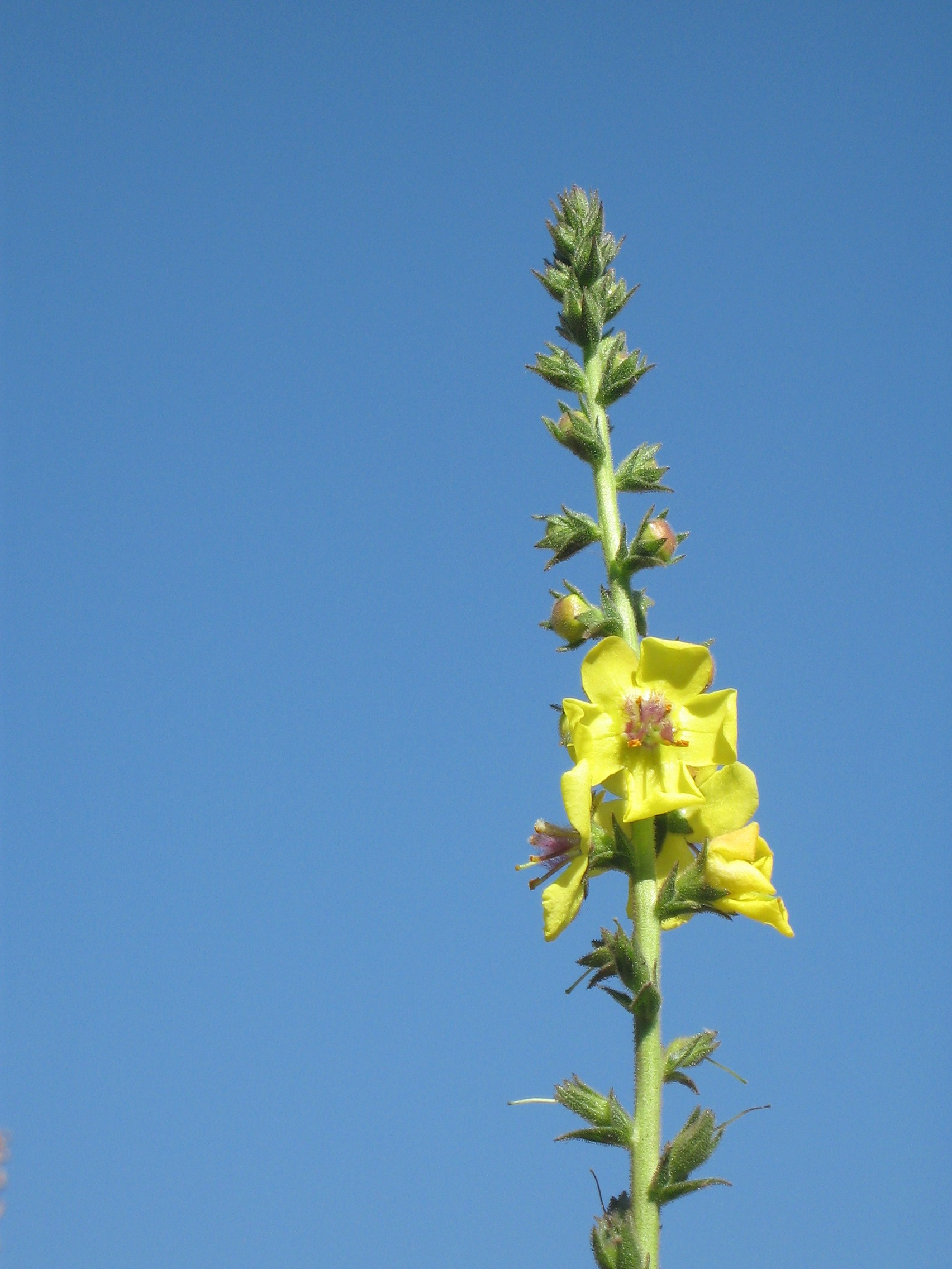 Verbascum virgatum Stokes, weed central Chile